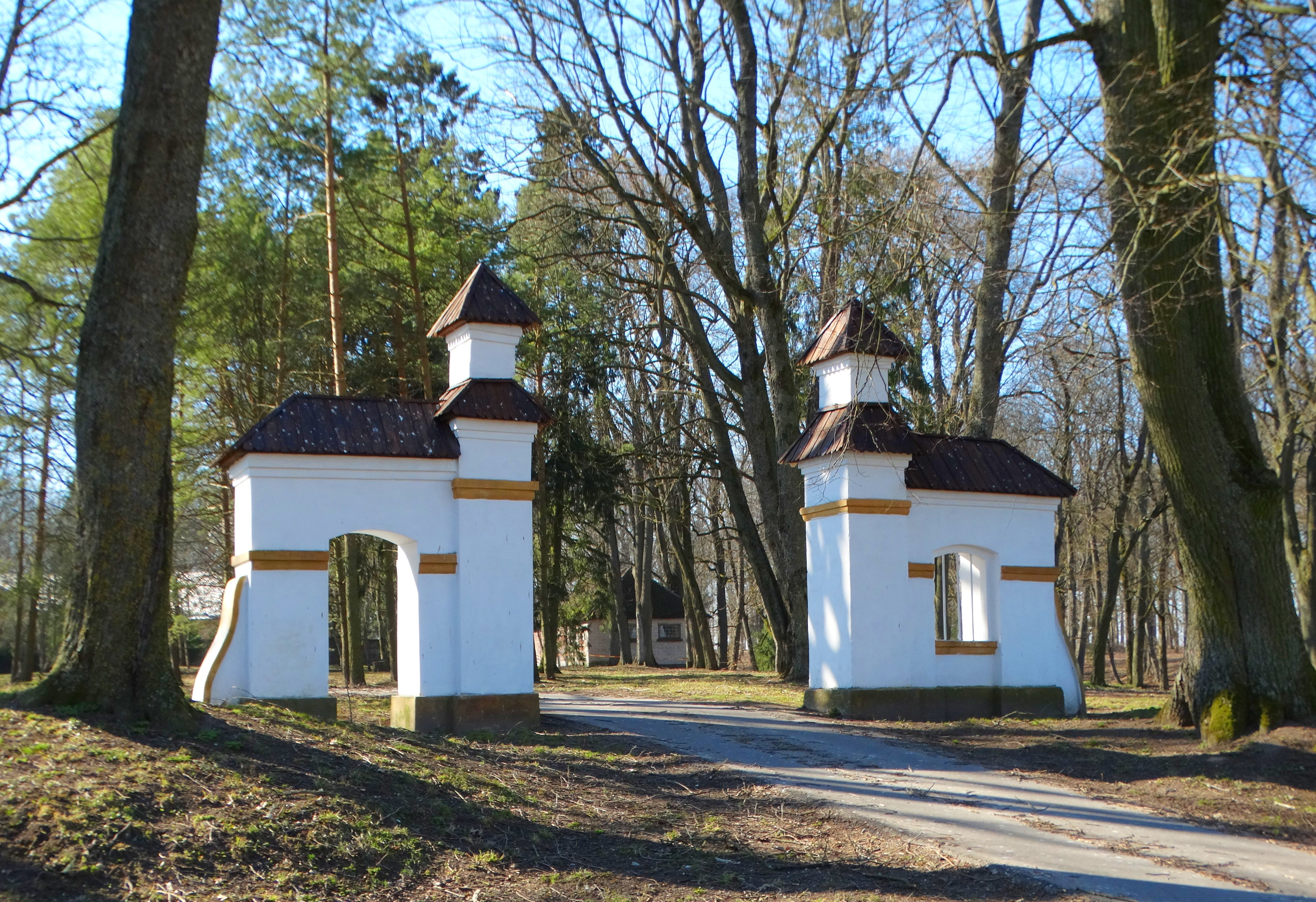 Gates, Šaukėnai, Kelmė district, Lithuania